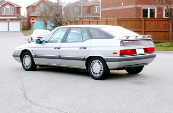 1993 Citroen XM, US Model, with rear sidemarker lights.